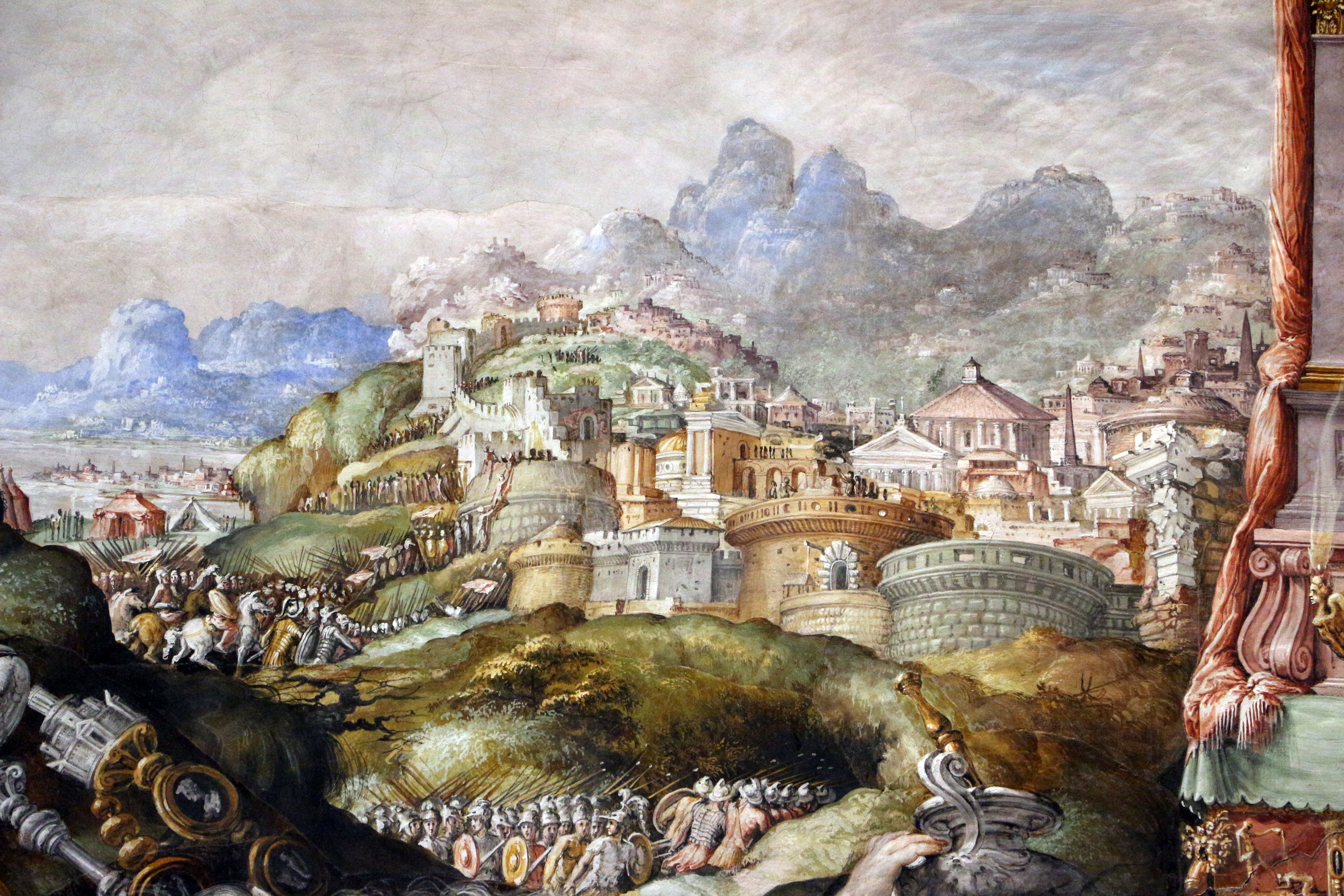 Stories of Marcus Furius Camillus by Francesco Salviati